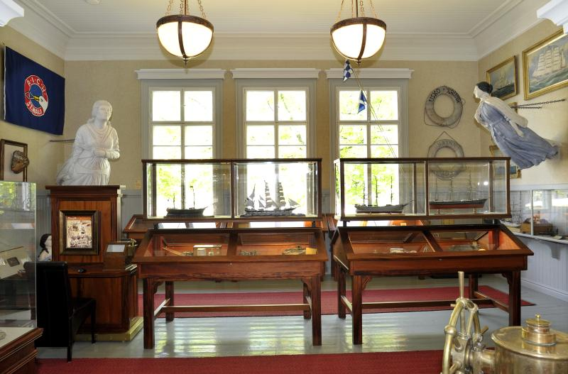 The Figurehead Room, one of the rooms in Rauma maritime museum's permanent exhibition